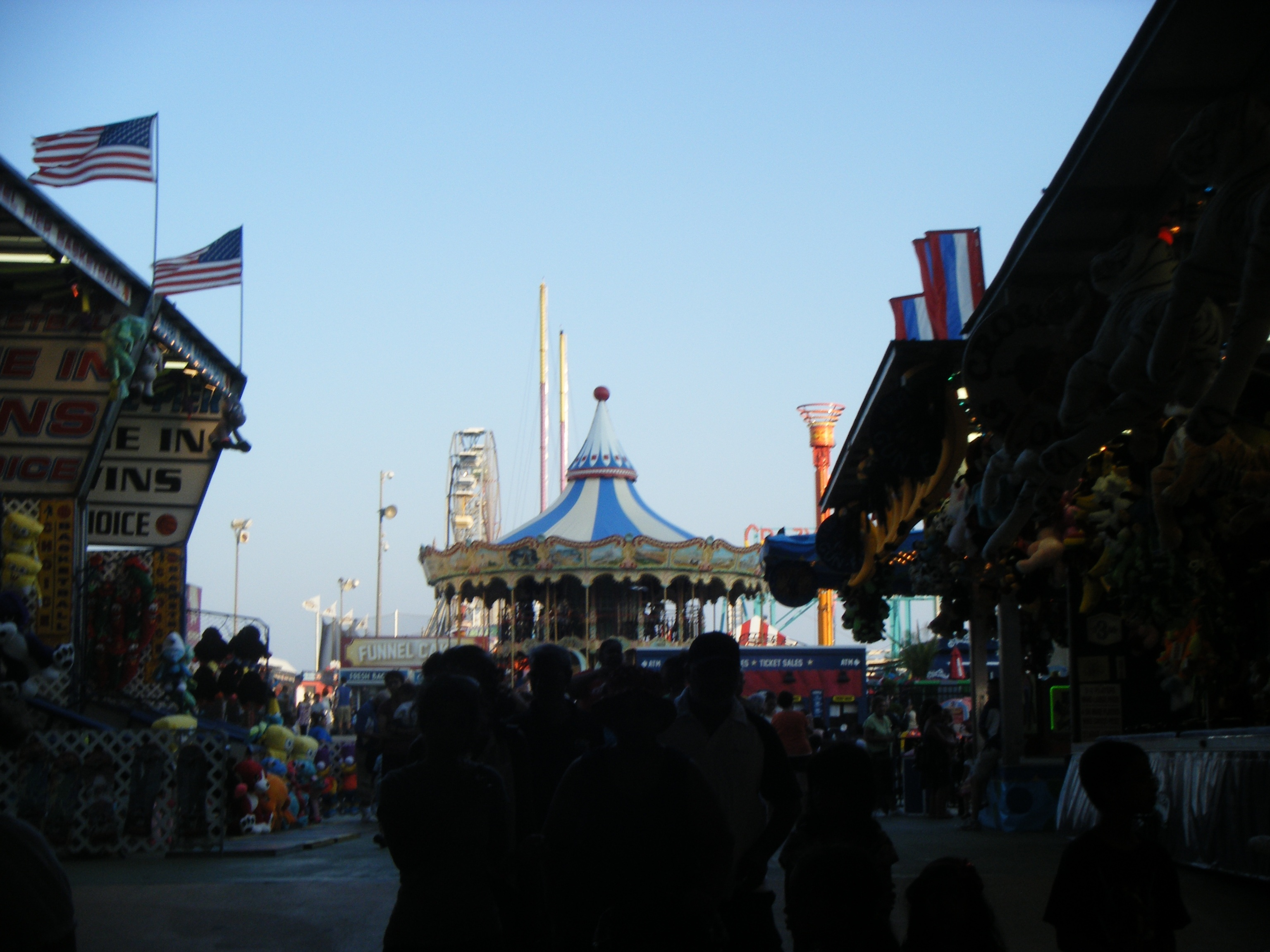 The Steel Pier in Atlantic City, New Jersey looking from the entrance